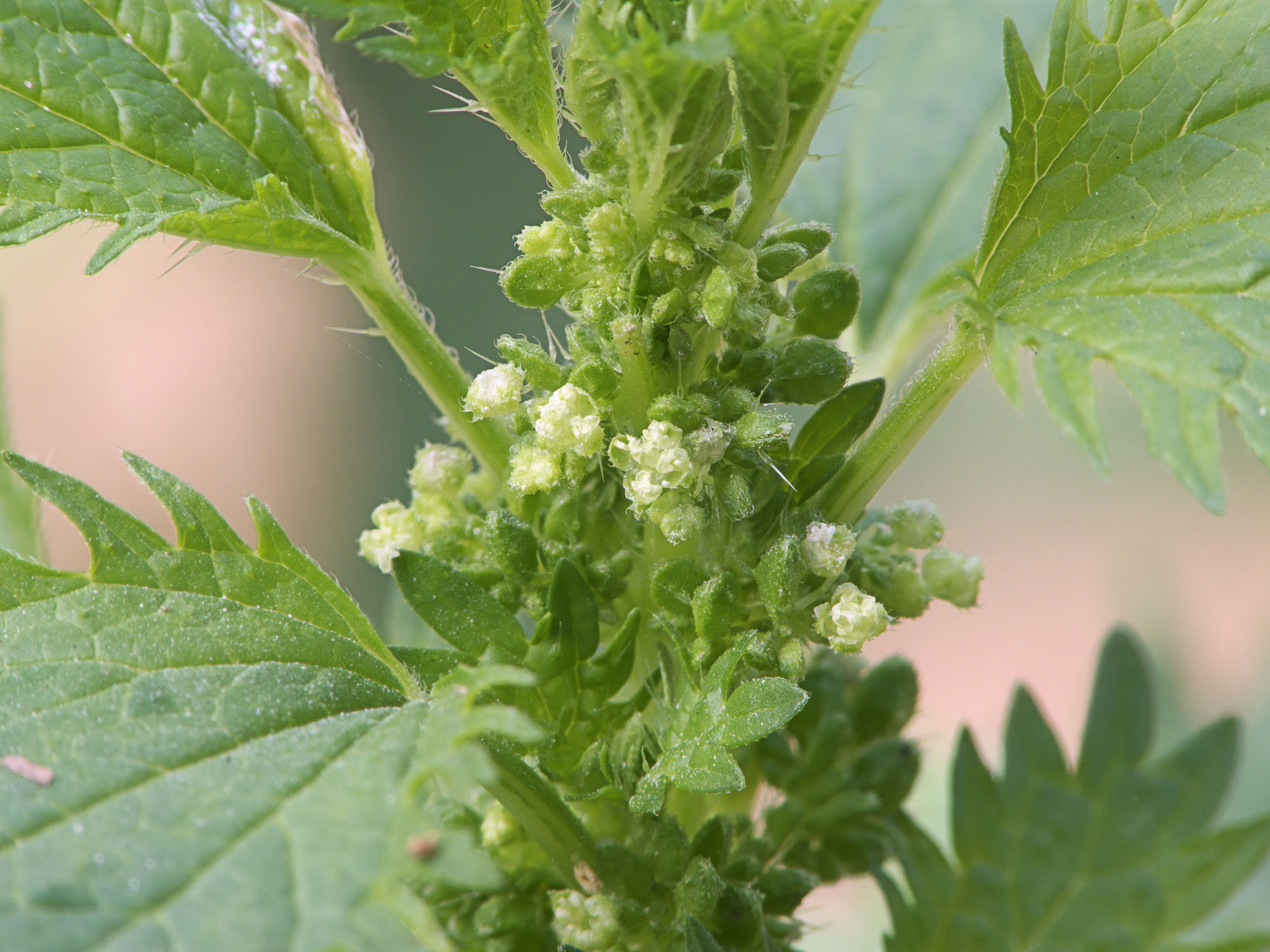 Urtica urens flowers, kleine brandnetel bloemen